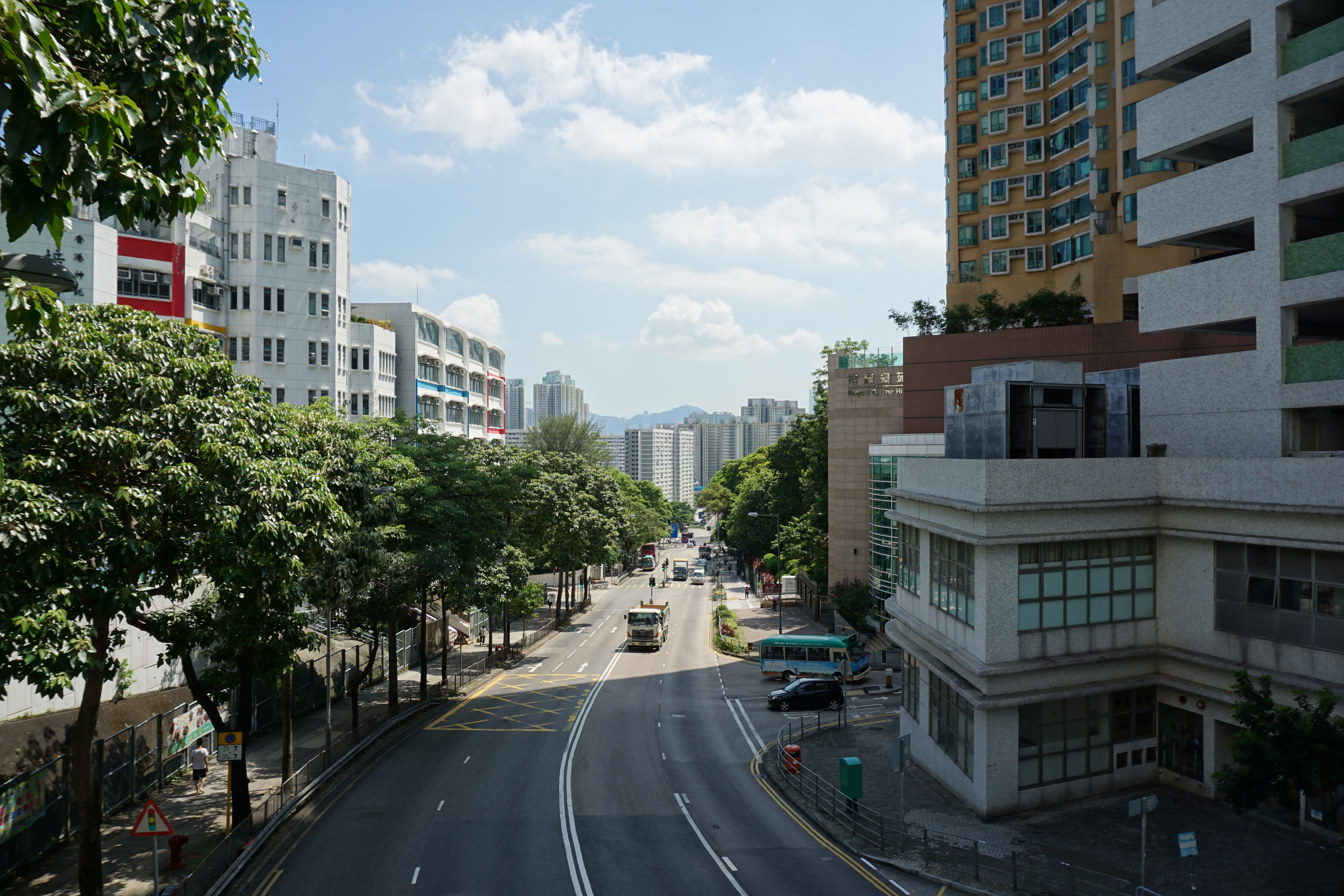 Hammer Hill Road in Hammer Hill, Hong Kong.